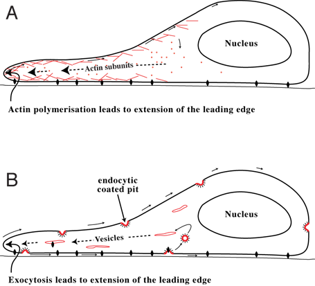 Two models for how a cell may move: A. Cytoskeletal model; B. Membrane Flow model.(Mark S Bretscher)